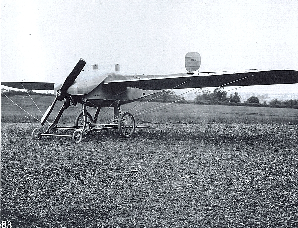 A monoplane Bristol Coanda